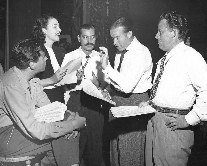 Photo of Bob Hope, Jerry Colonna, Dezi Arnaz, Sr., Frances Langford and unidentified man. The photo appears to be a rehearsal for Bob Hope's NBC Radio program. Woman is Vera Vague [1] and other man is Wendell Niles. See The Pepsodent Show Cast near bottom of page: [2].